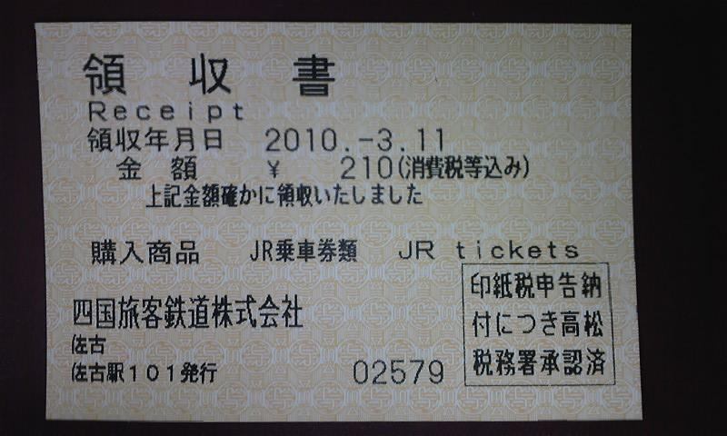 Receipt for rail ticket of JR Shikoku from Sako Station. 210 yen.